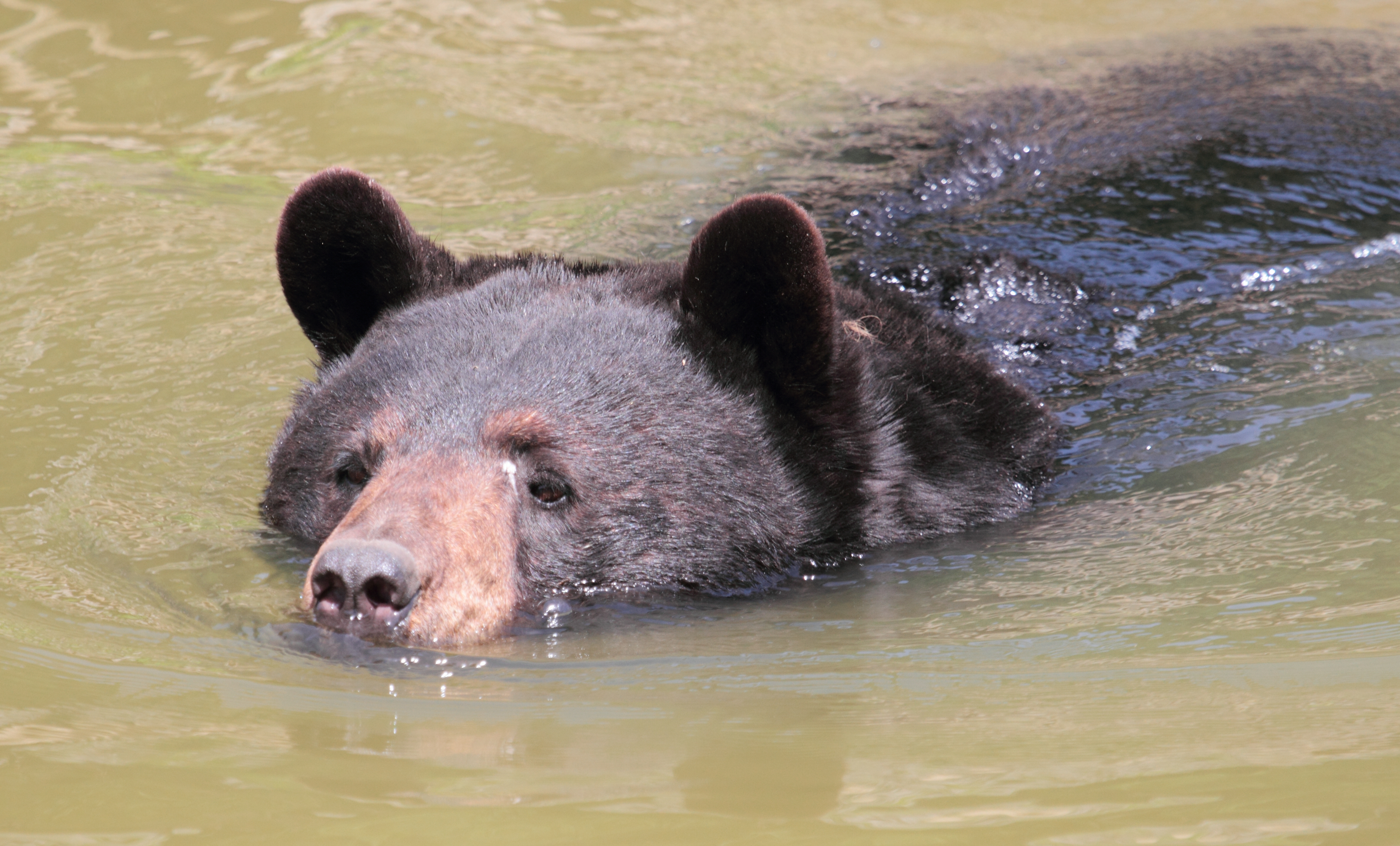 American black bear, Parc Omega, Quebec, Canada